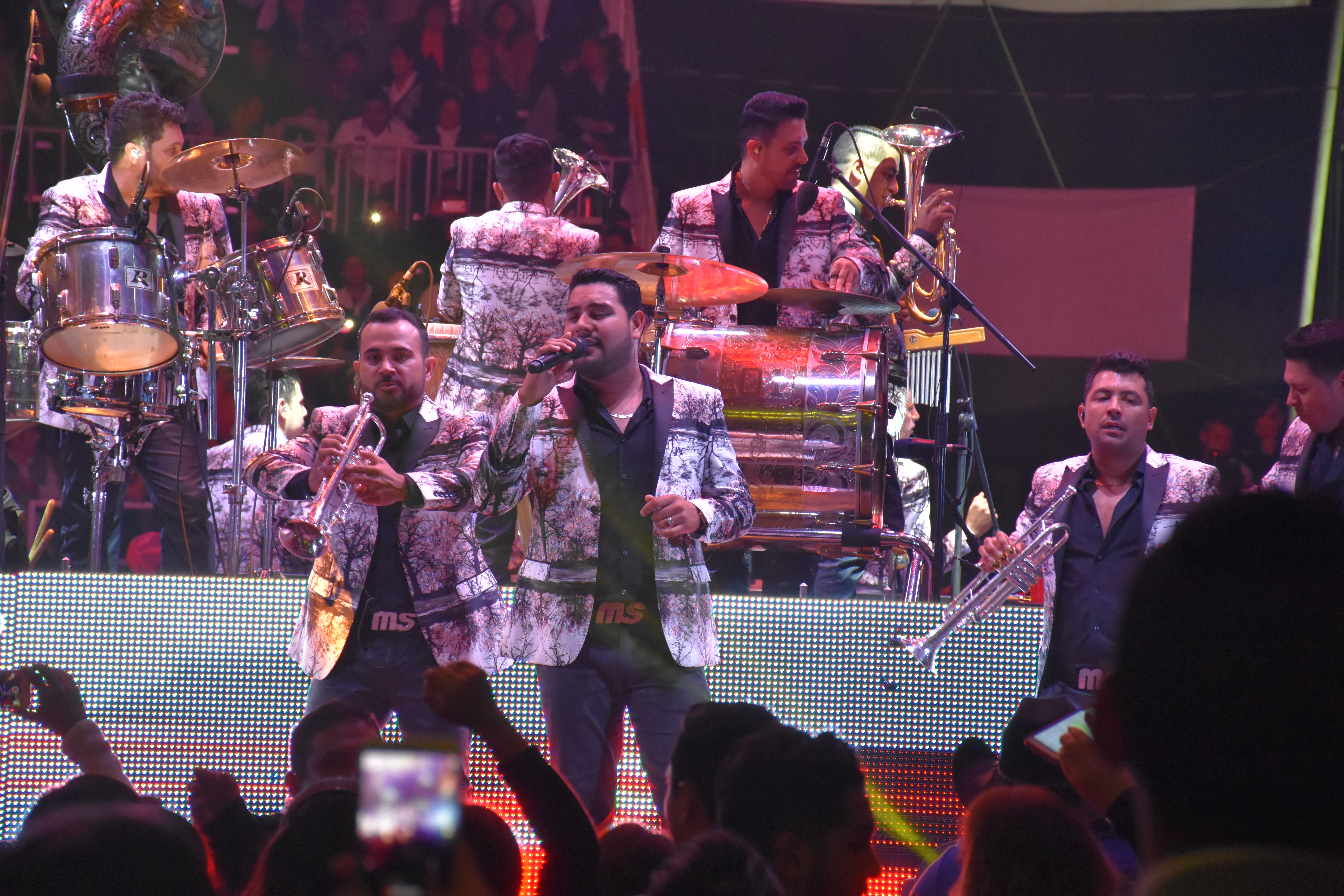 Banda MS during a concert at Feria de Cholula, 2016.